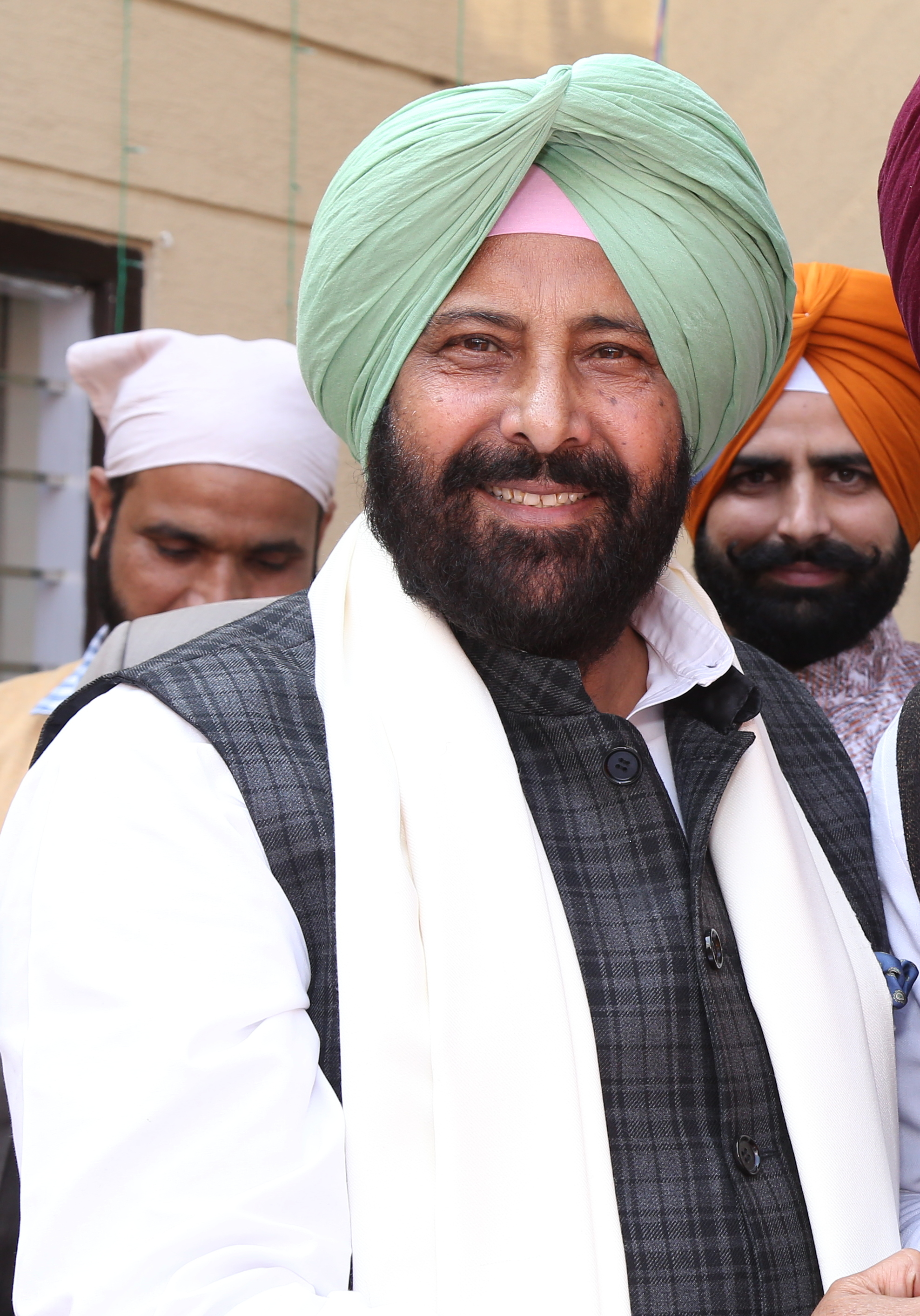 Kewal Singh Dhillon honouring the panch of Hamidi Jaswinder Singh Mangat.